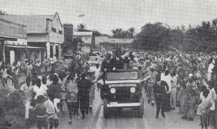 Moise Tshombe greets crowds of admirers in Stanleyville